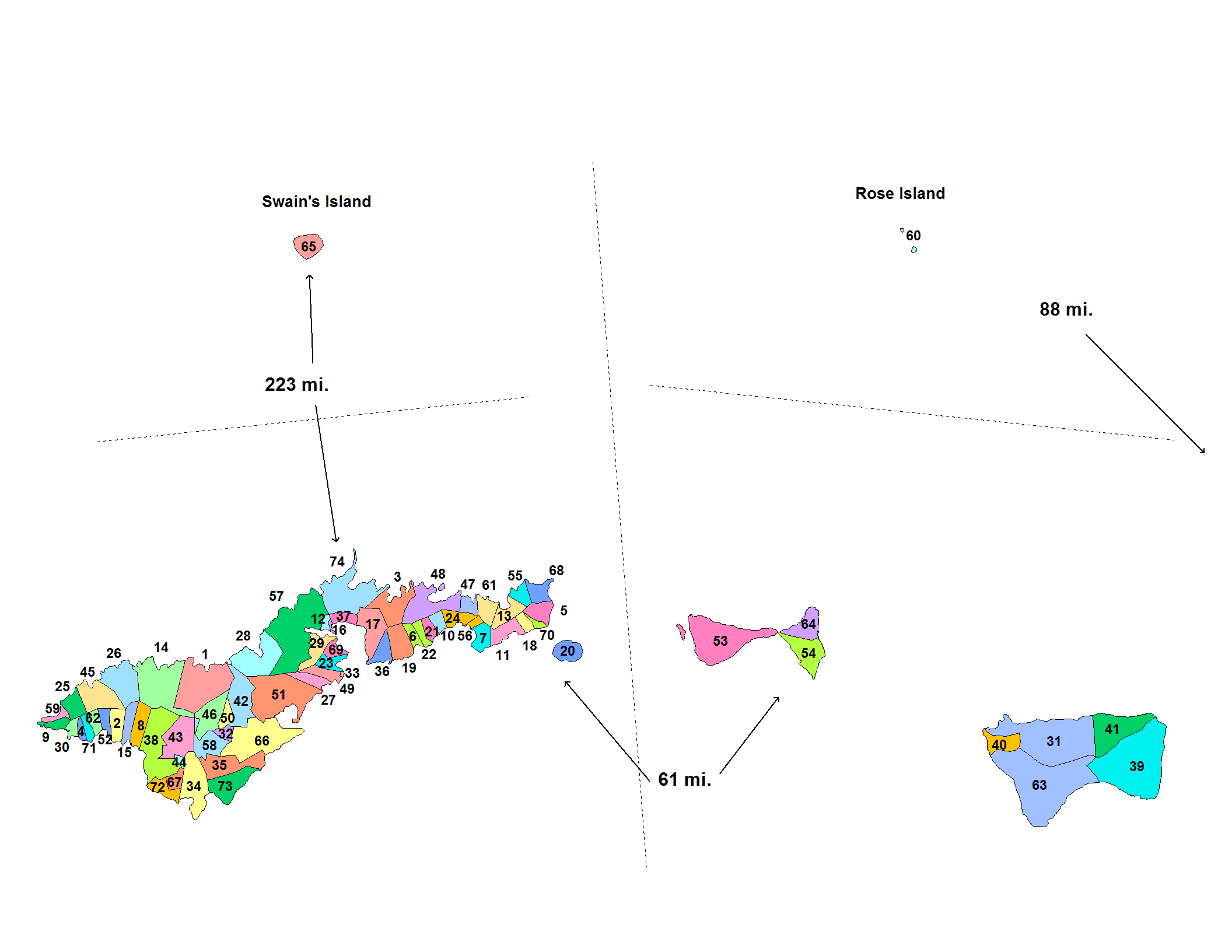 Map of the villages of American Samoa. Created by Rarelibra 18:10, 11 January 2008 (UTC) for public domain use, using MapInfo Professional v8.5 and various mapping resources.